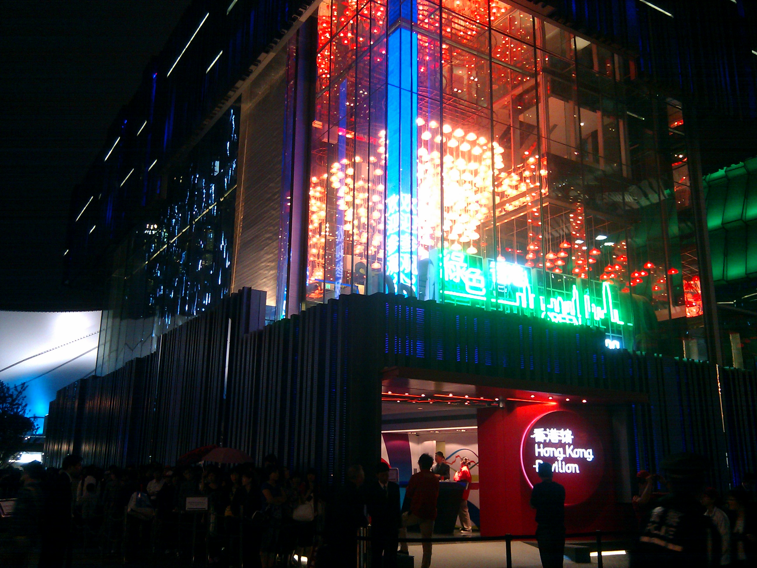 Hong Kong Pavilion of Expo 2010